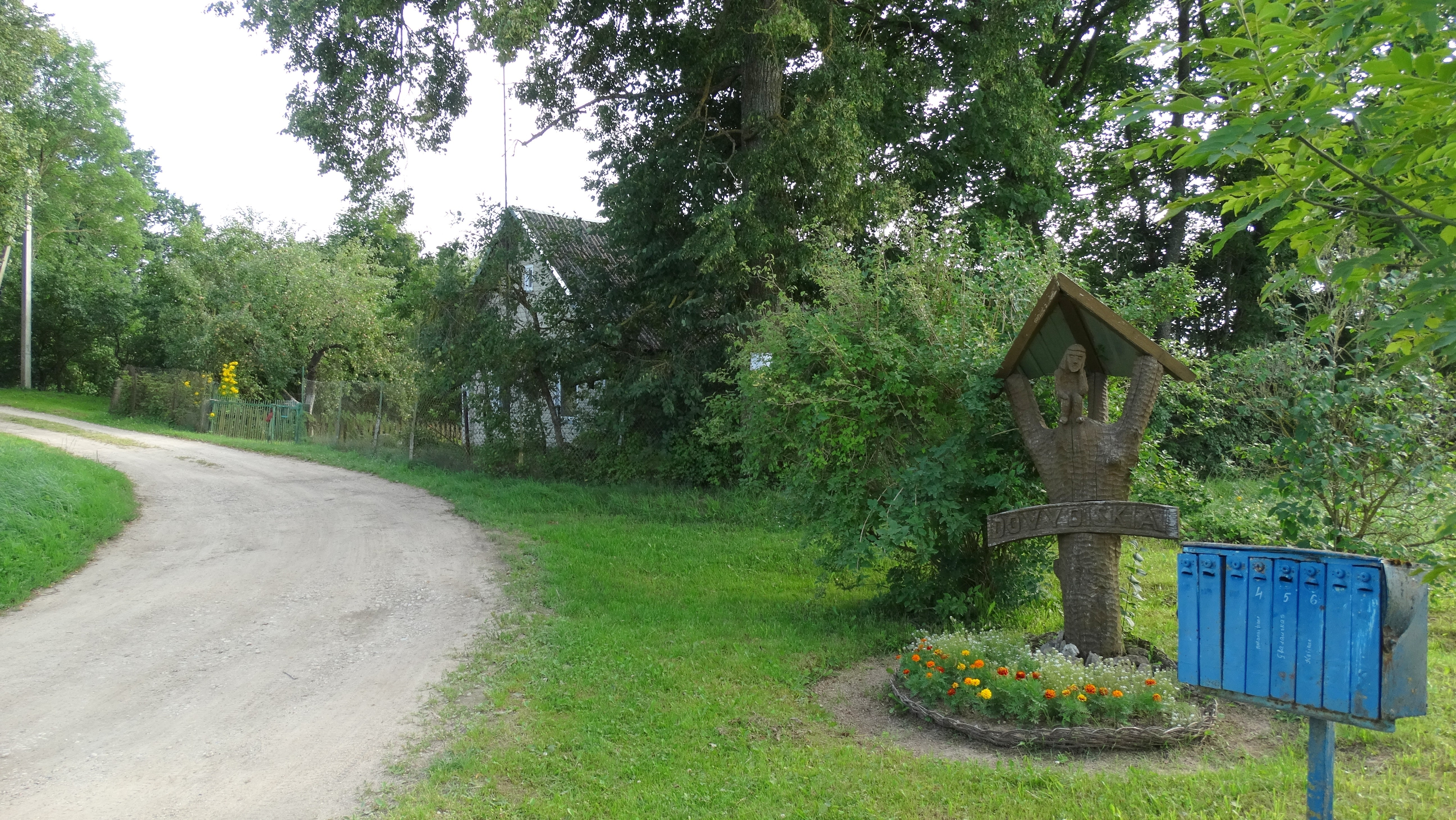 Dovydiškiai, Ukmergė District, Lithuania